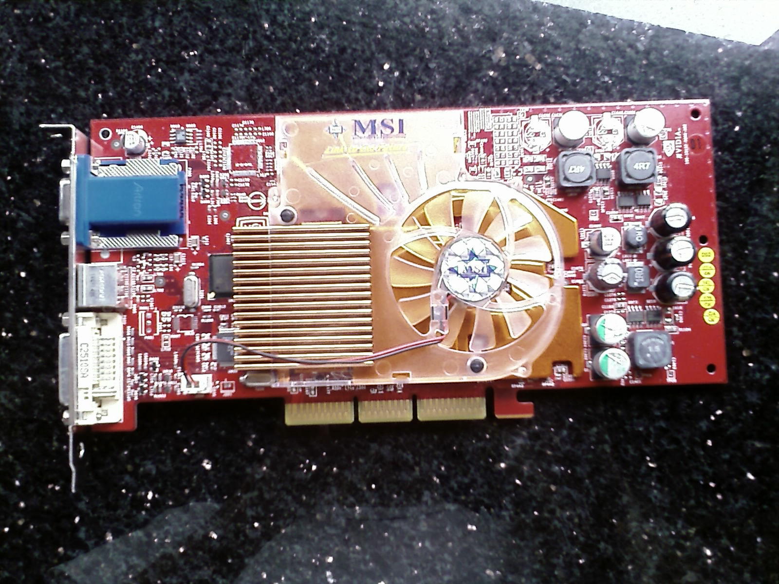 MSI GeForce4 Ti 4800 graphics card.